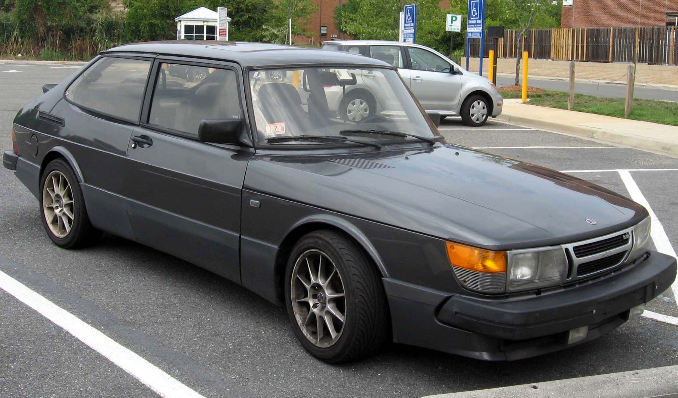 1984-1986 Saab 900 photographed in College Park, Maryland, USA.